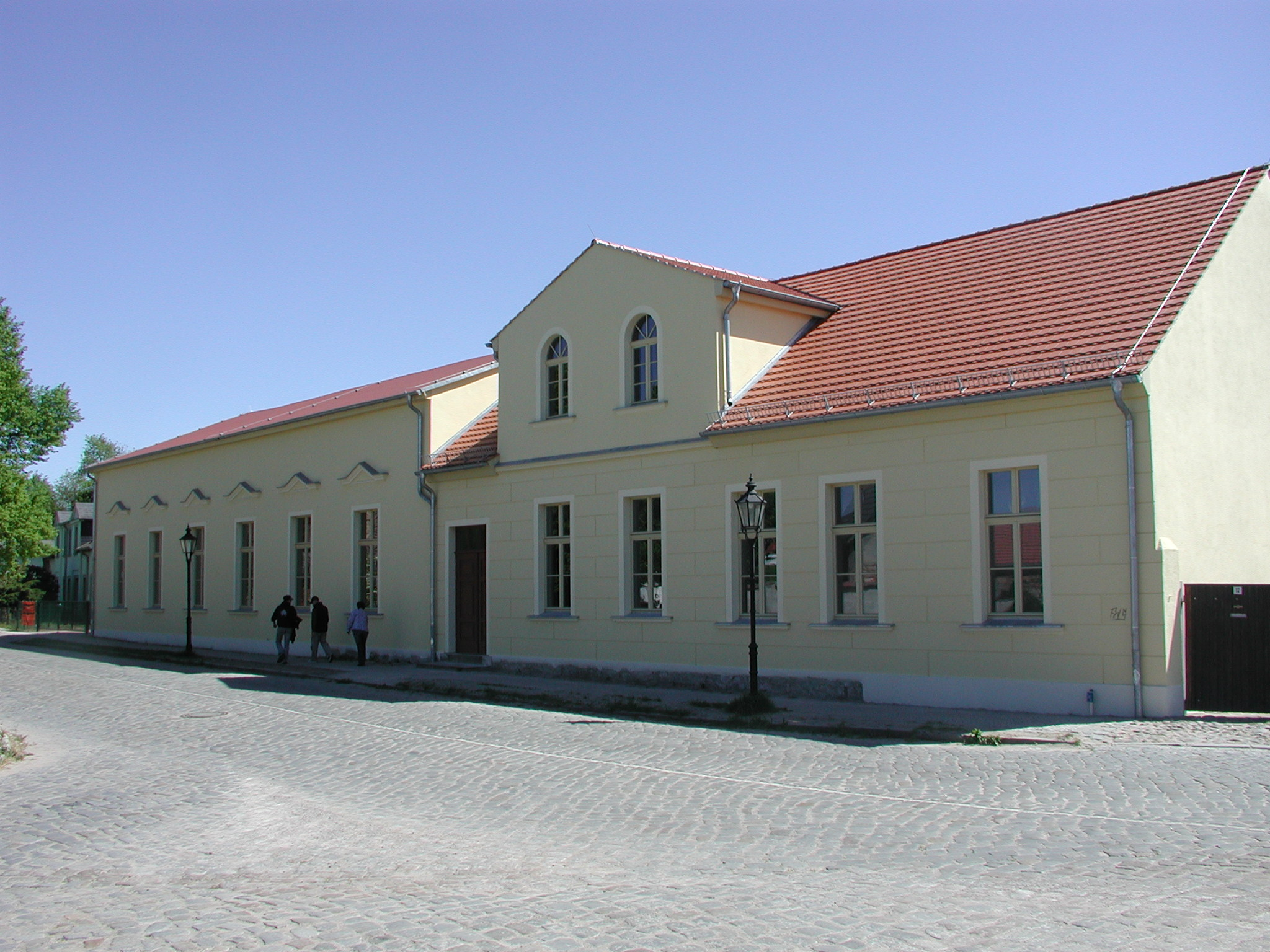 The former Inn "Goldener Löwe" (engl. "Golden Lion") in the center of Wandlitz, Brandenburg, Germany.